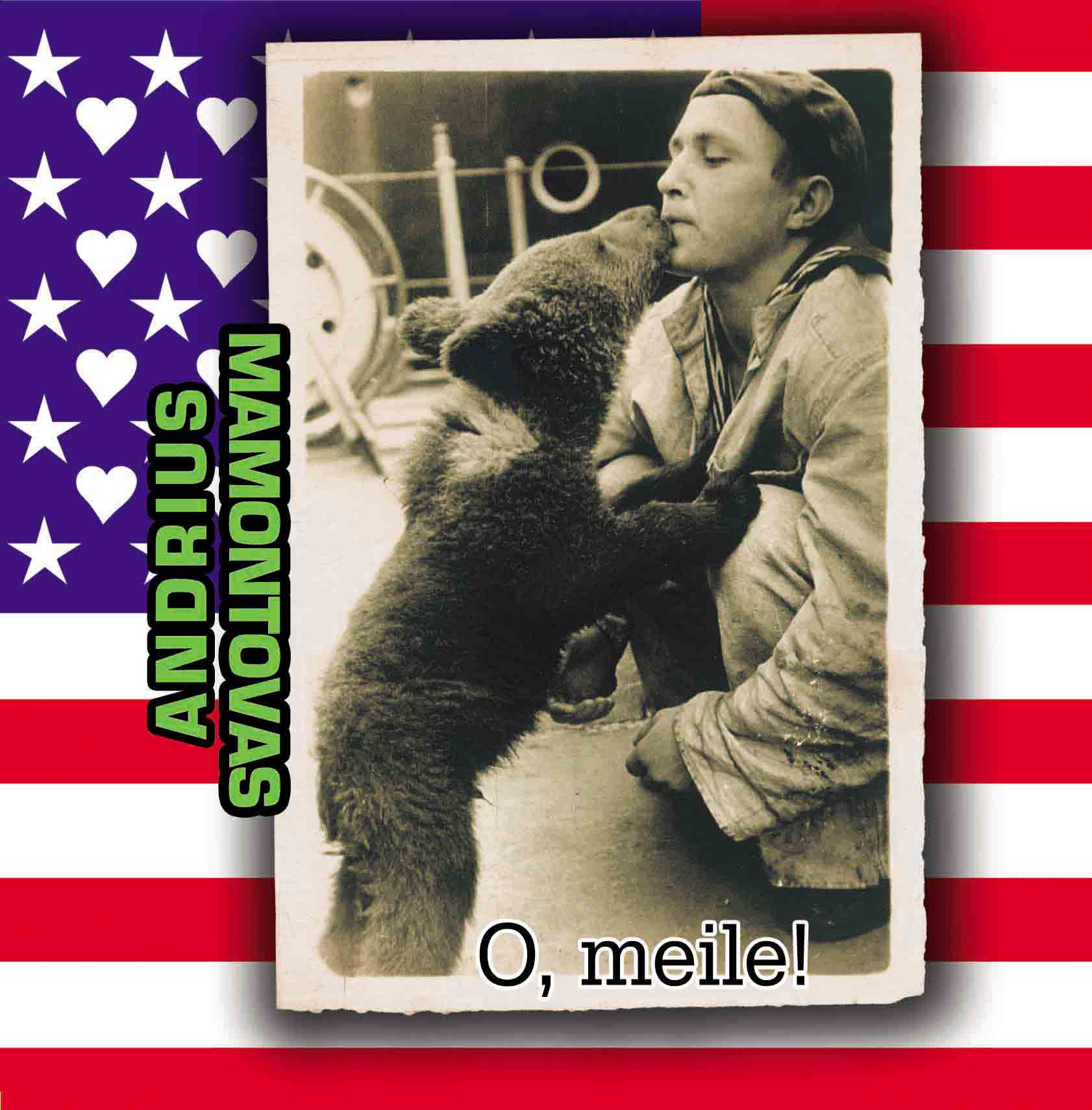 The cover artwork for Andrius Mamontovas' album O, Meile!